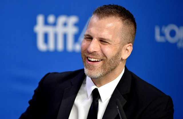 Writer, Actor Adam G. Simon speaking at the Toronto Film Festival Press Conference for Man Down.